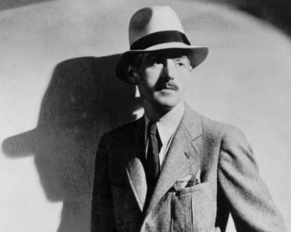 Photo portrait of American author Dashiell Hammett used for the first-edition dust jacket of his fifth and final novel, The Thin Man.